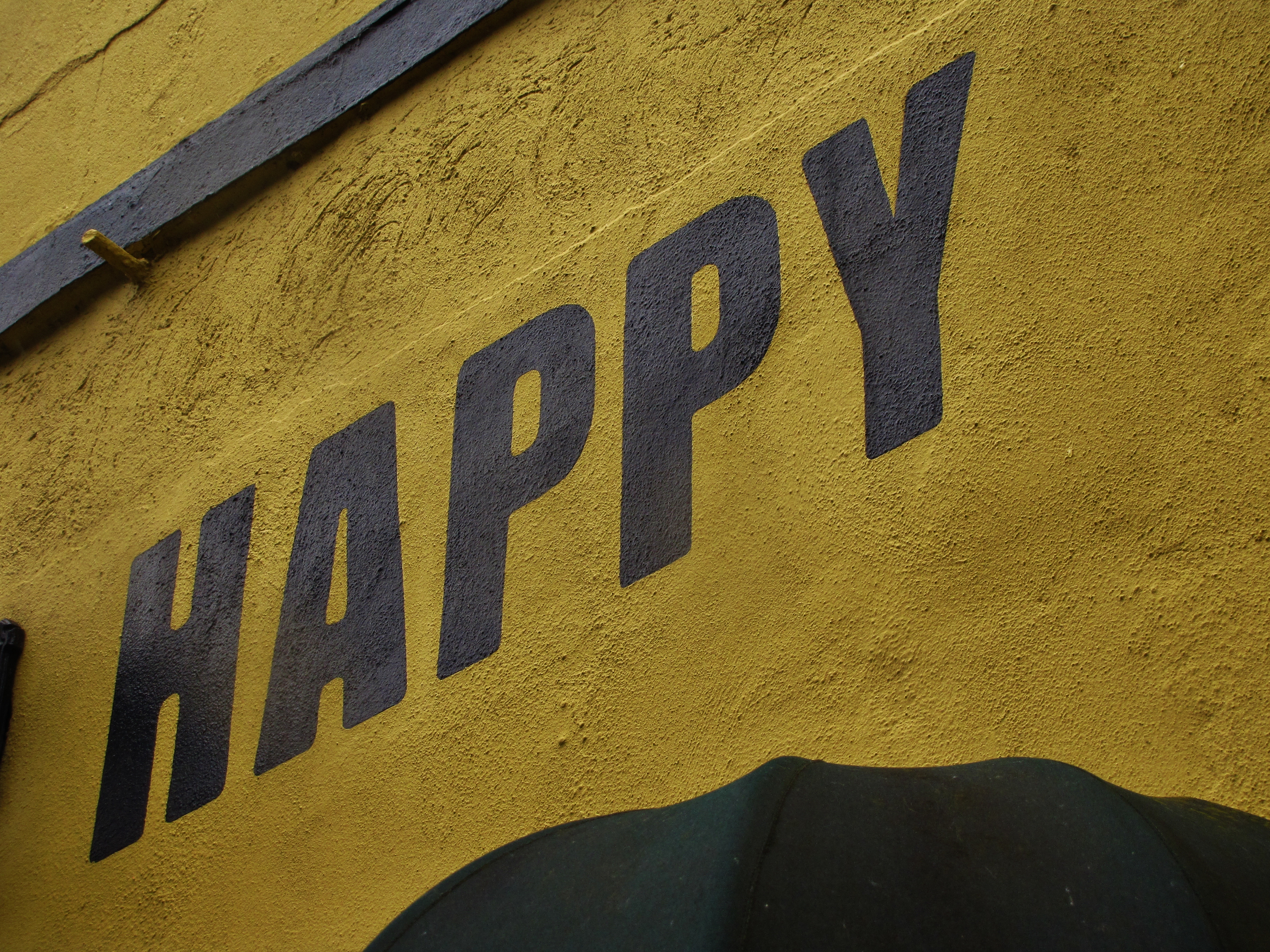 Le Happy 1011 NW 16th Avenue